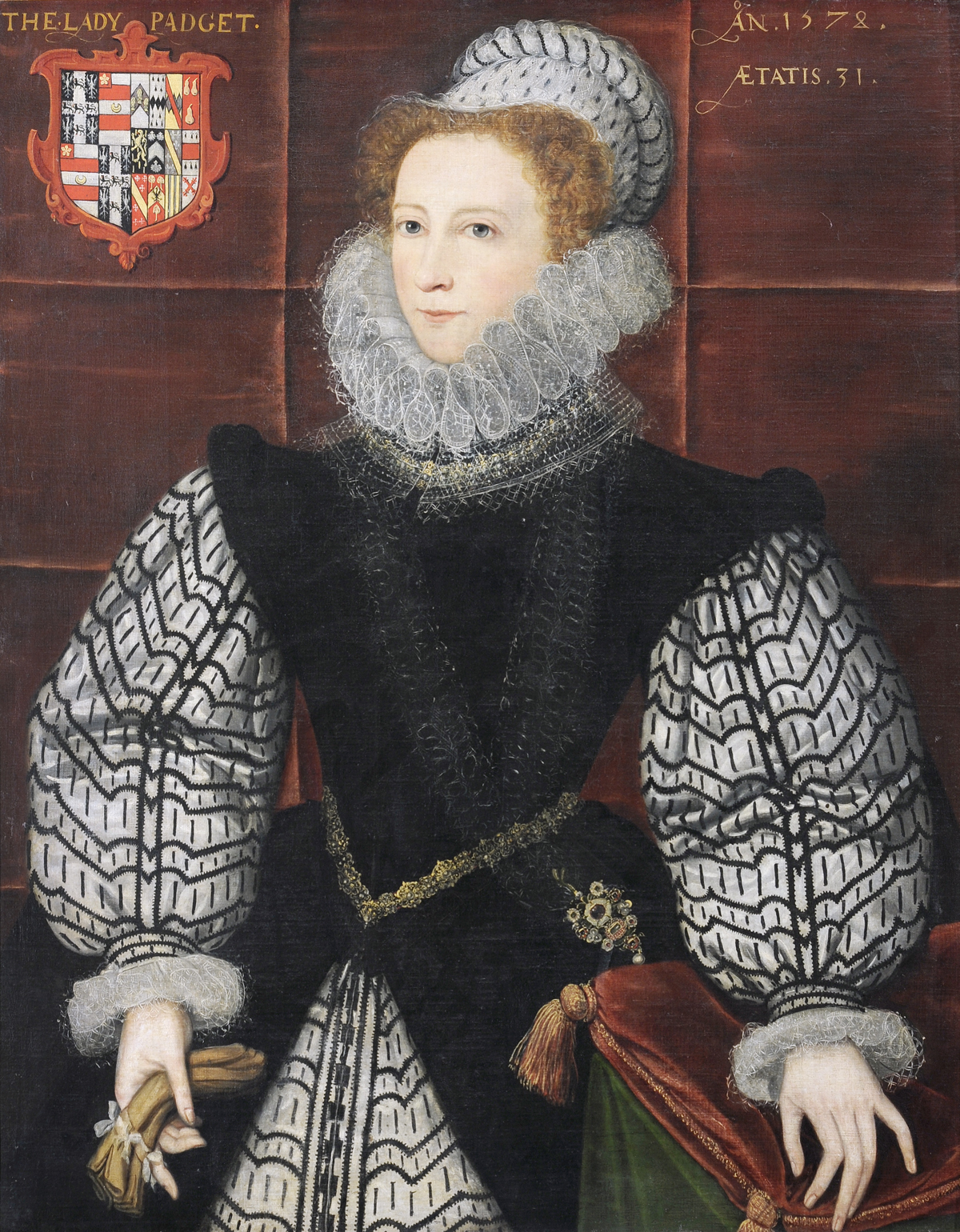 Portrait now thought to be Nazerth Newton, Lady Paget (1547 - 1589)